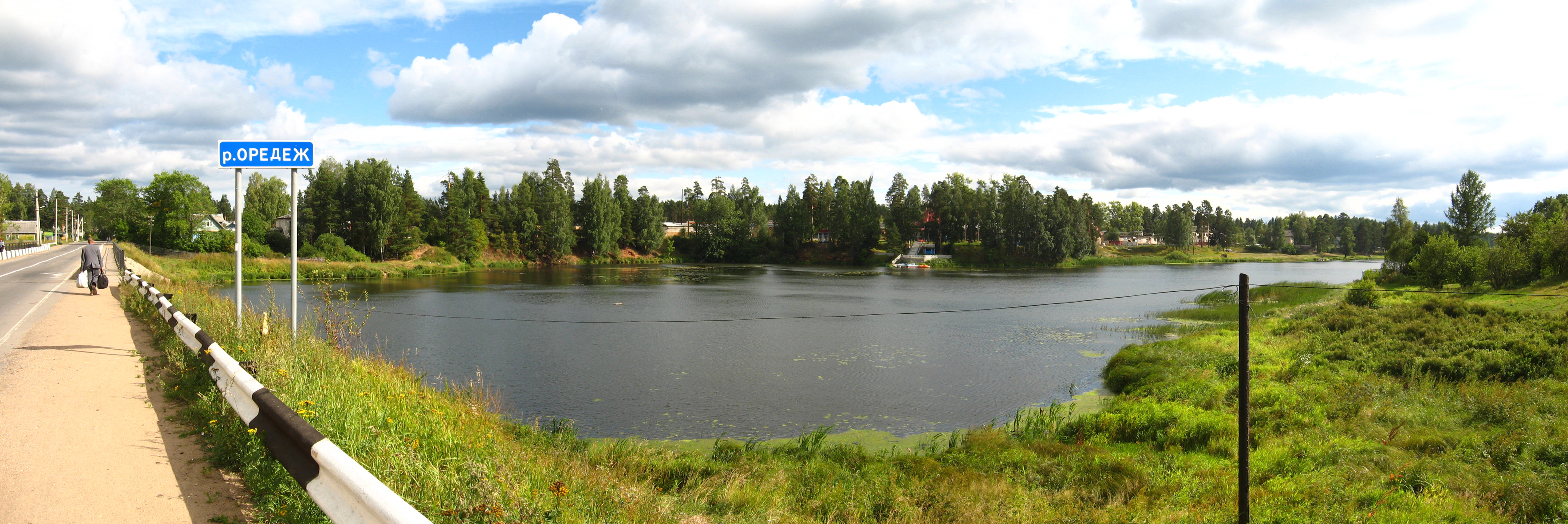 Panorama of Oredezh River near Vyritsa